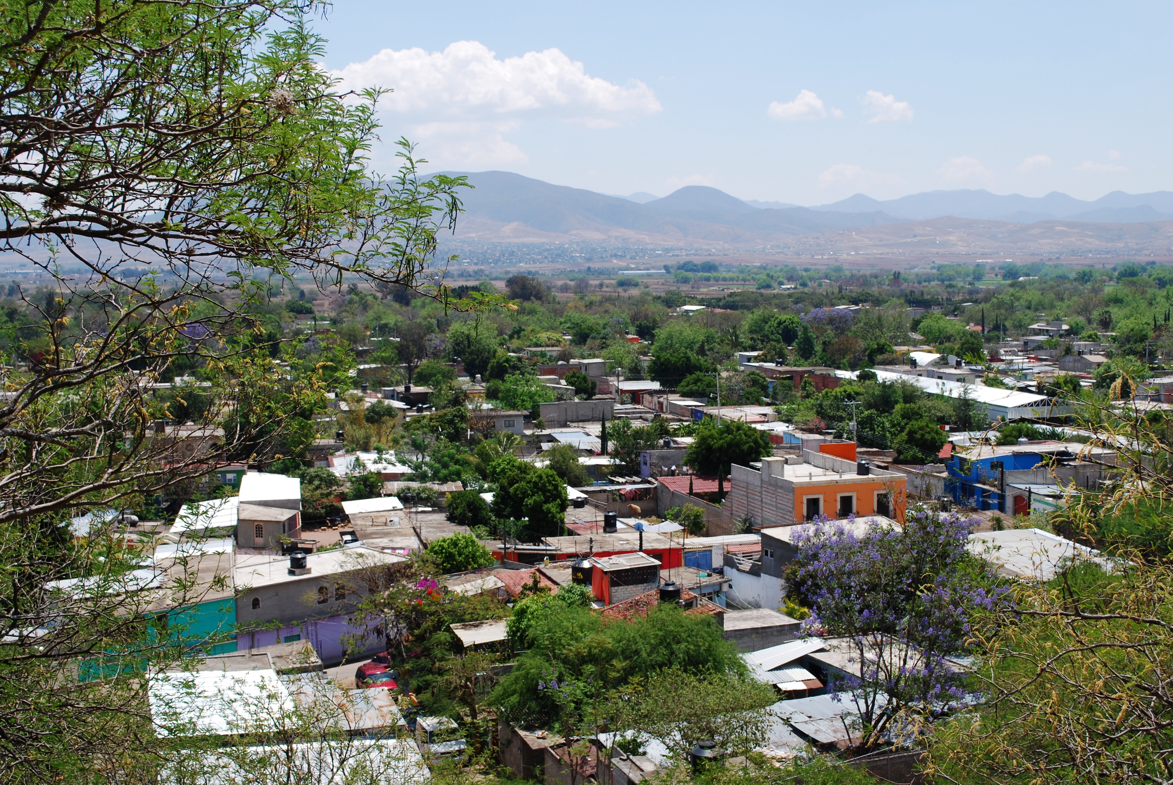 View of valley looking ESE from the Zaachila archeological site in Oaxaca, Mexico